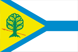 Flag of Krasny_Sulin, Rostov Region, Russia